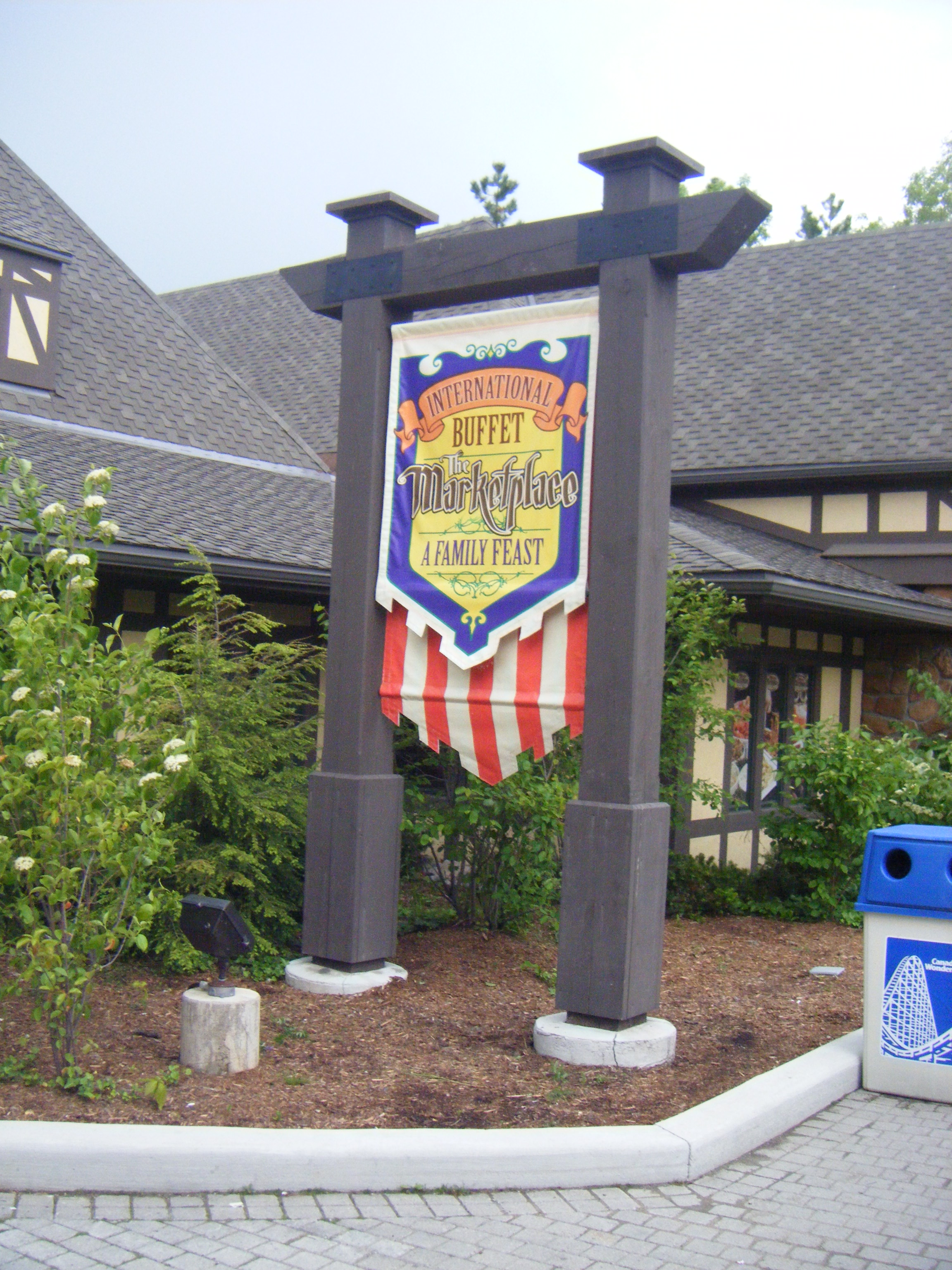 Marketplace restaurant in Medieval Faire, at Canada's Wonderland.